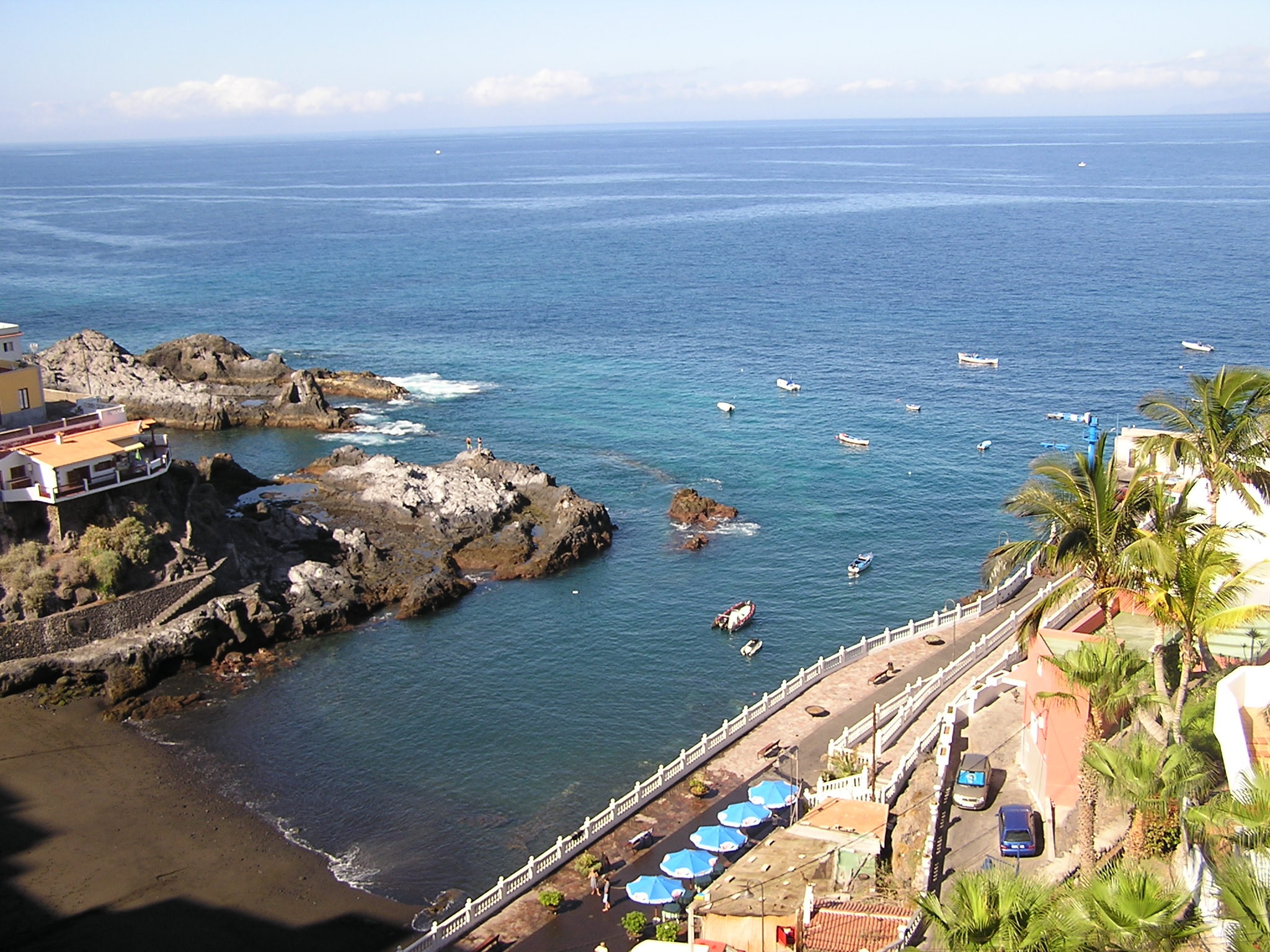 Puerto de Santiago, Tenerife, Canary Islands